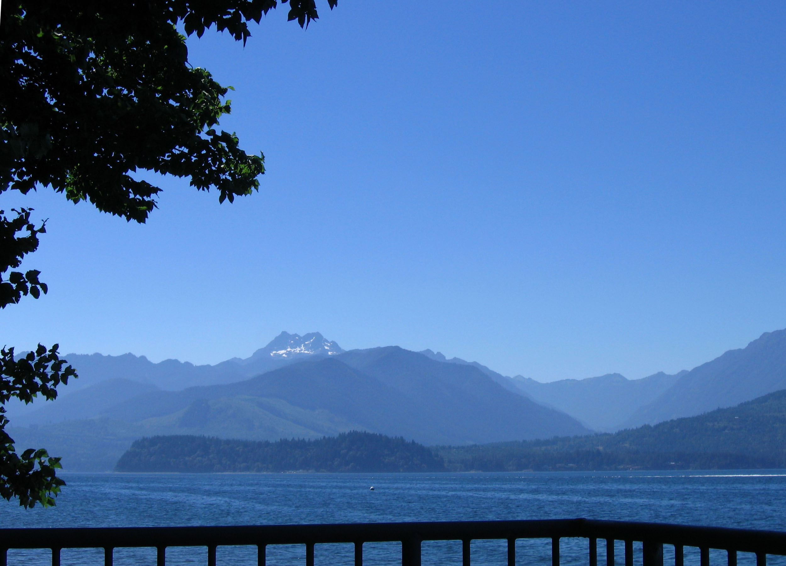 Another lovely view of the mountains from our picnic table.